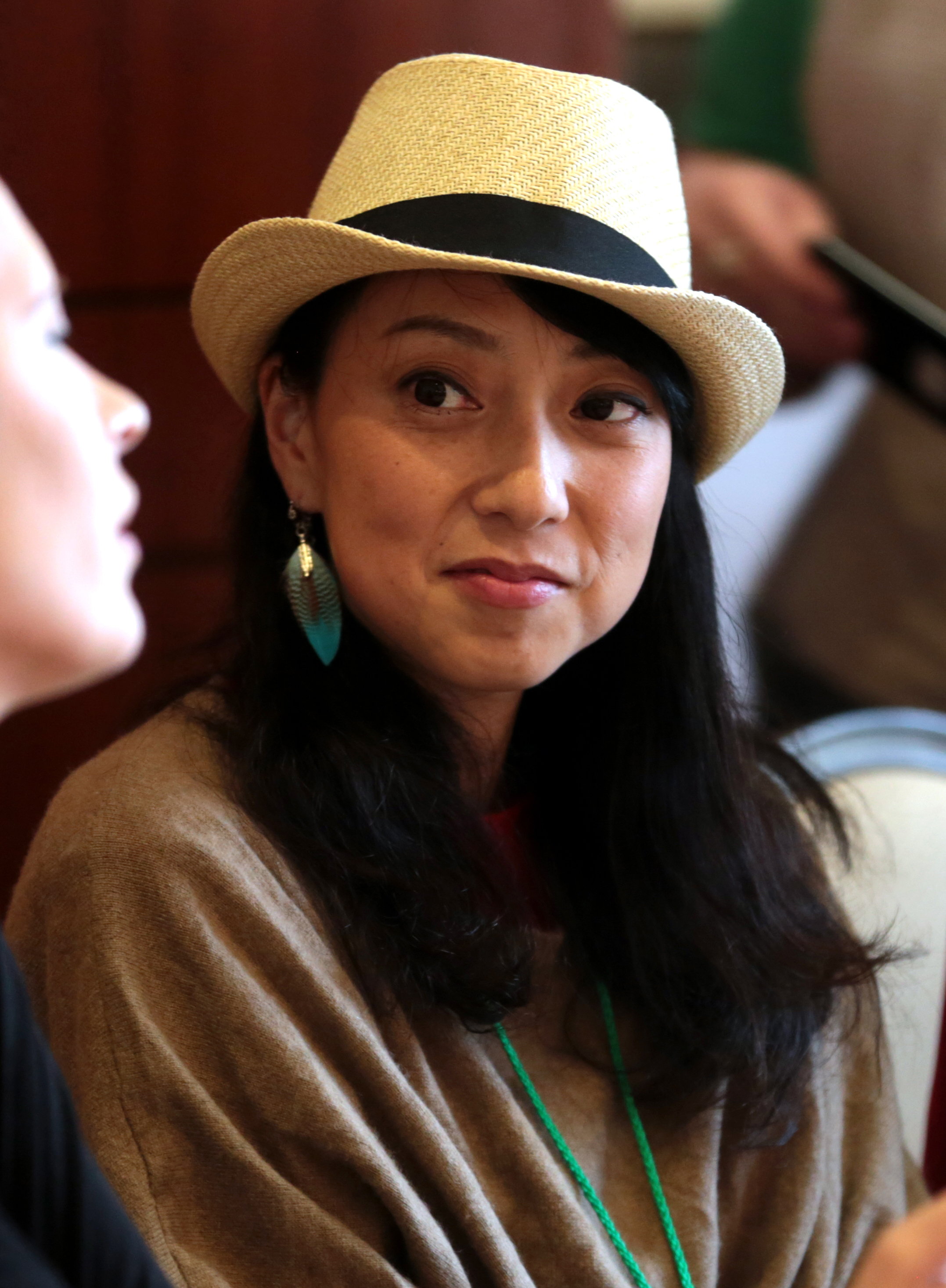 Yūko Miyamura speaking at an event in Phoenix, Arizona.